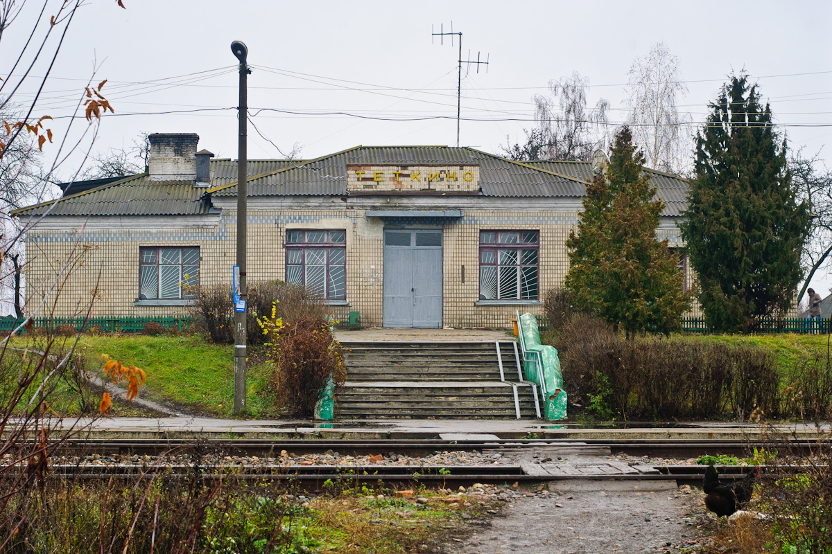 Tyotkino railway station, Kursk region, Russia